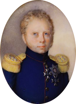 King William I of Württemberg (1781-1864), in blue uniform with red piping and gold epaulettes, wearing the cross of the Royal Württembergian Order of Frederick (founded 1830), the badge of the Royal Württembergian Order of Military Merit and one other badge; sky background